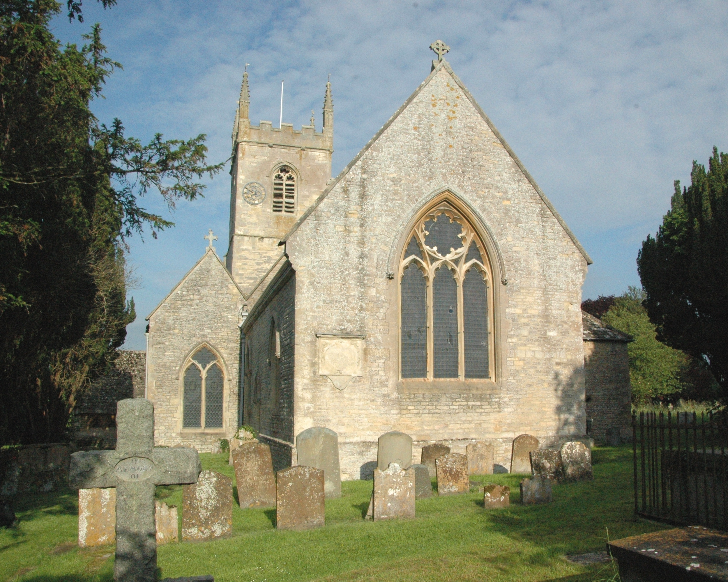 Church of England parish church of St Nicholas the Confessor, Islip, Oxfordshire: view from the east